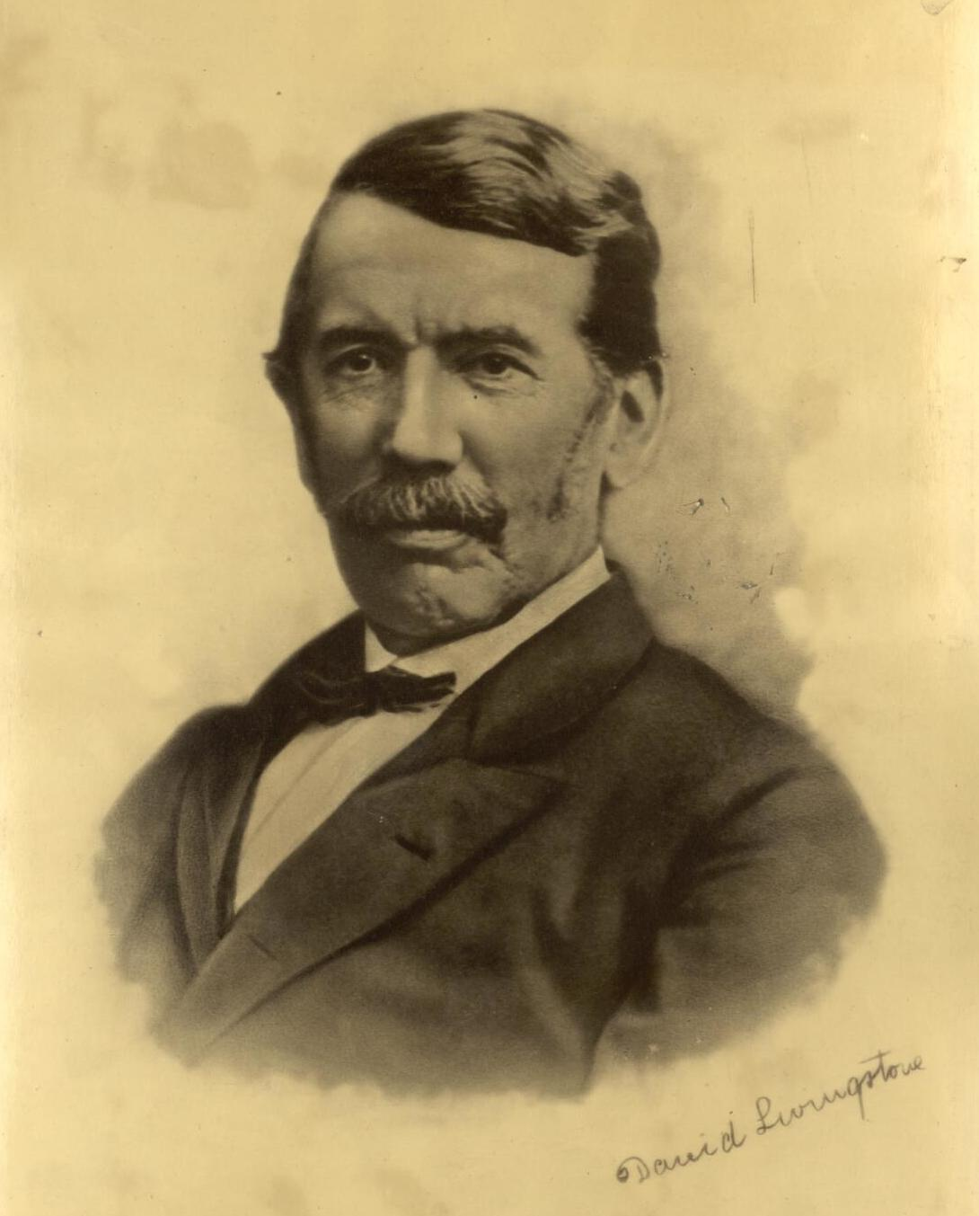 A portrait from the Welsh Portrait Collection at the National Library of Wales. Depicted person: David Livingstone – Scottish explorer and missionary